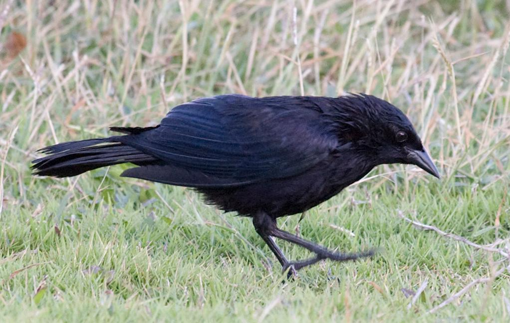 A Cuban Blackbird Ptiloxena atroviolaceus in Havana, Cuba.